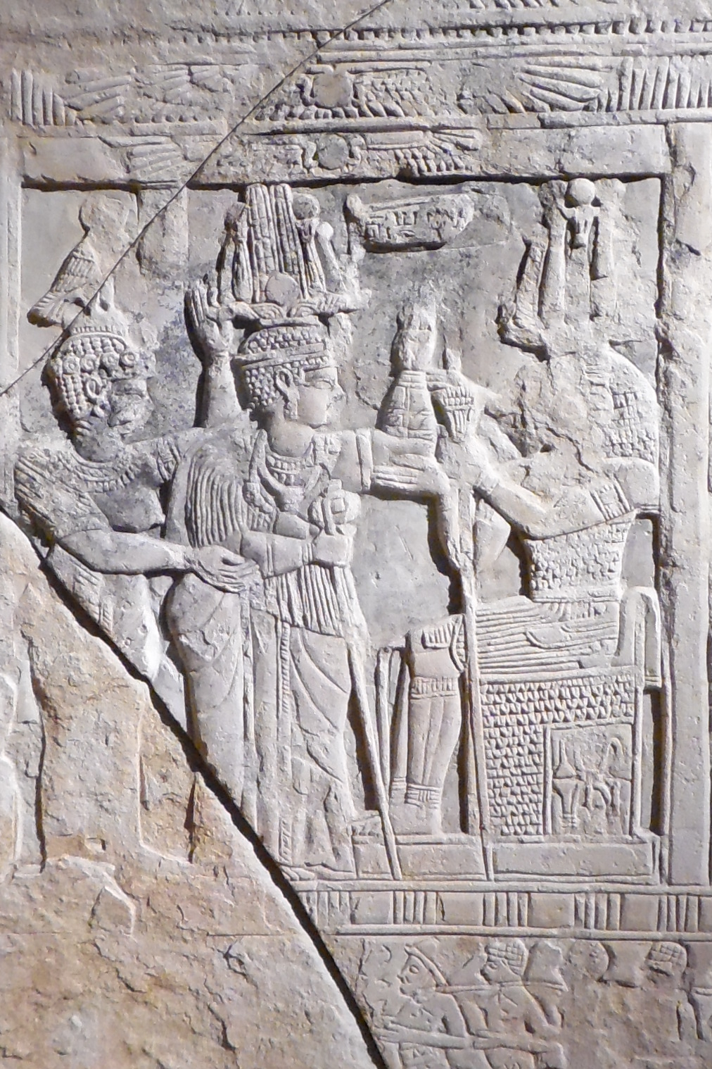 Closeup of a stele depicting the Meroitic kandake Amanishakheto between the goddess Amesemi and the god Apedemak. Sandstone, from the the temple of Amun in Naqa, 1st century BCE. Munich, Staatliches Museum Ägyptischer Kunst (on loan from the Khartoum National Museum).